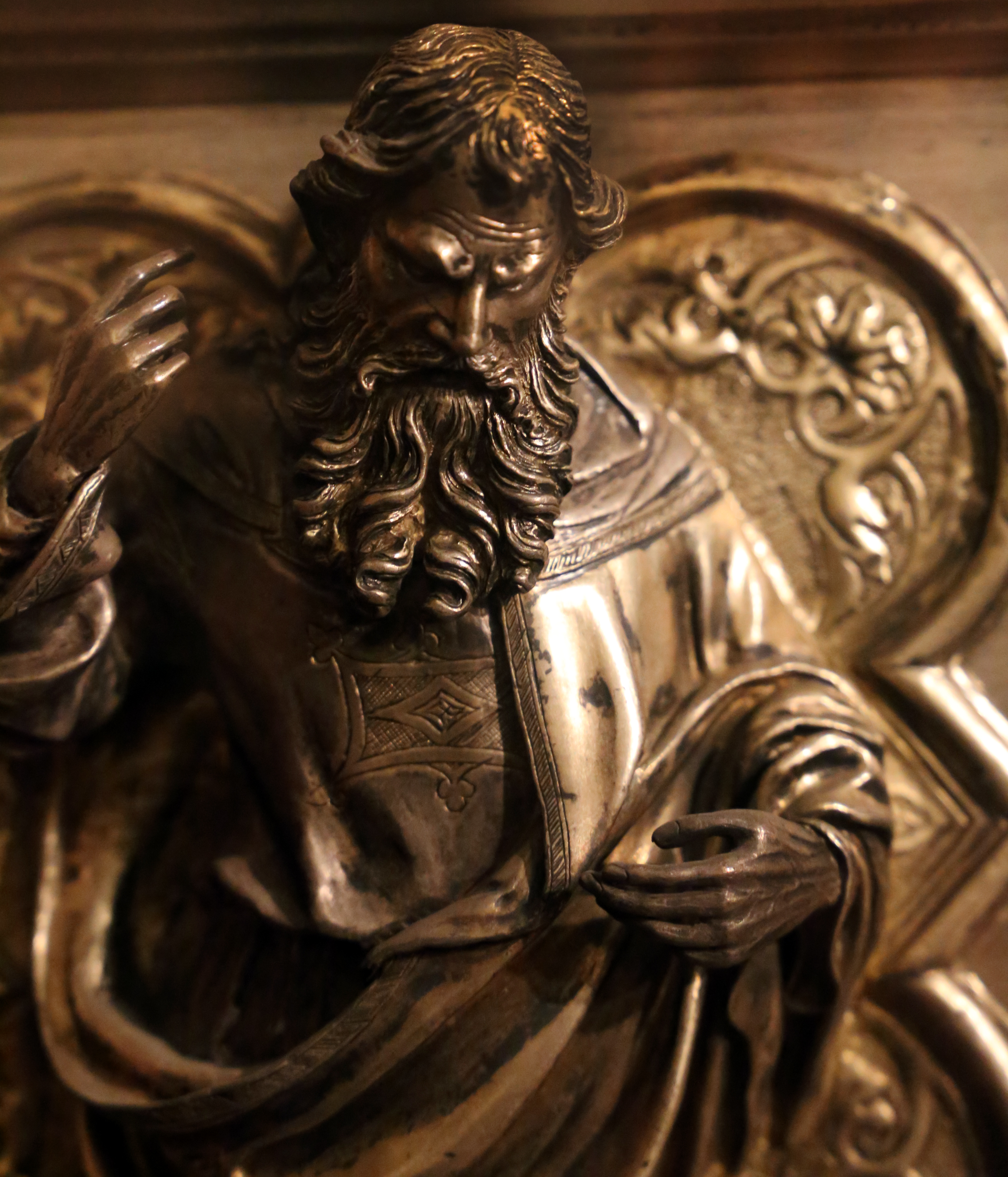 Silver Altar of Saint James